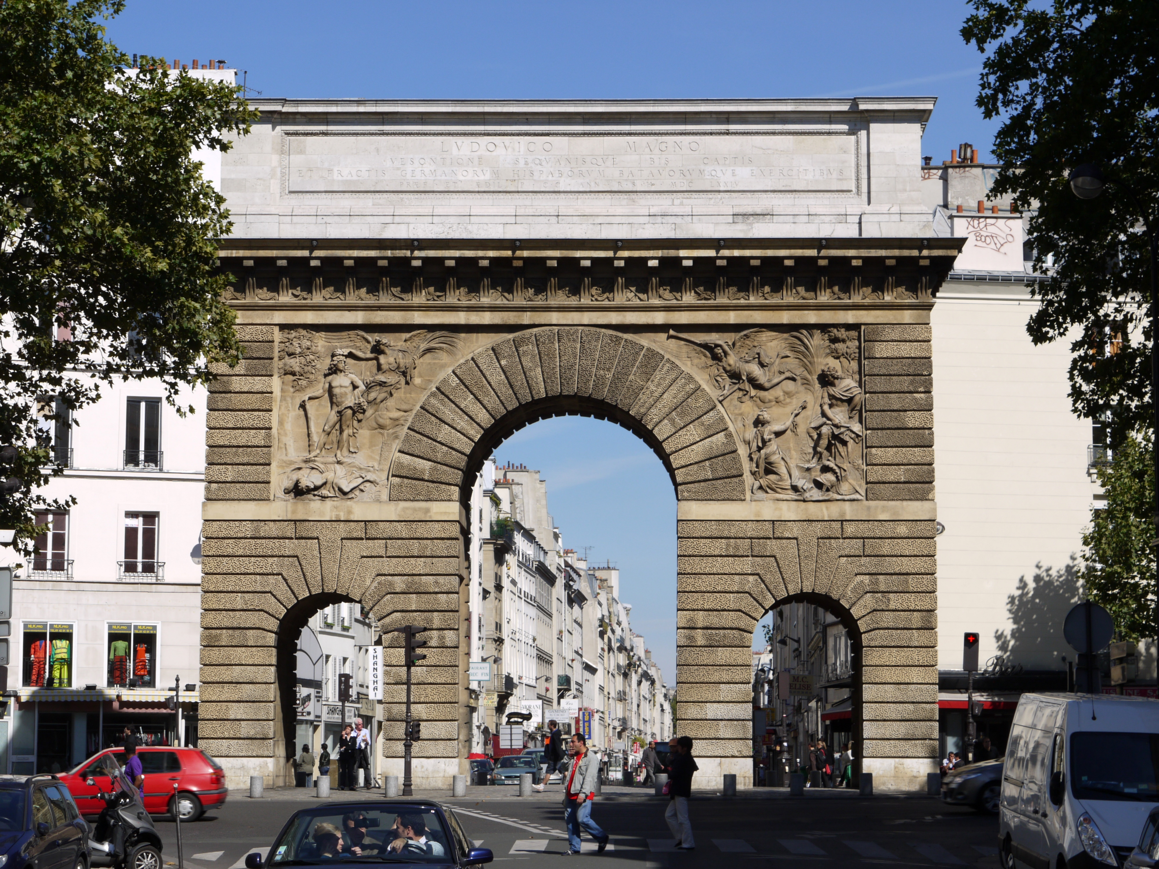 Porte Saint-Martin, Paris